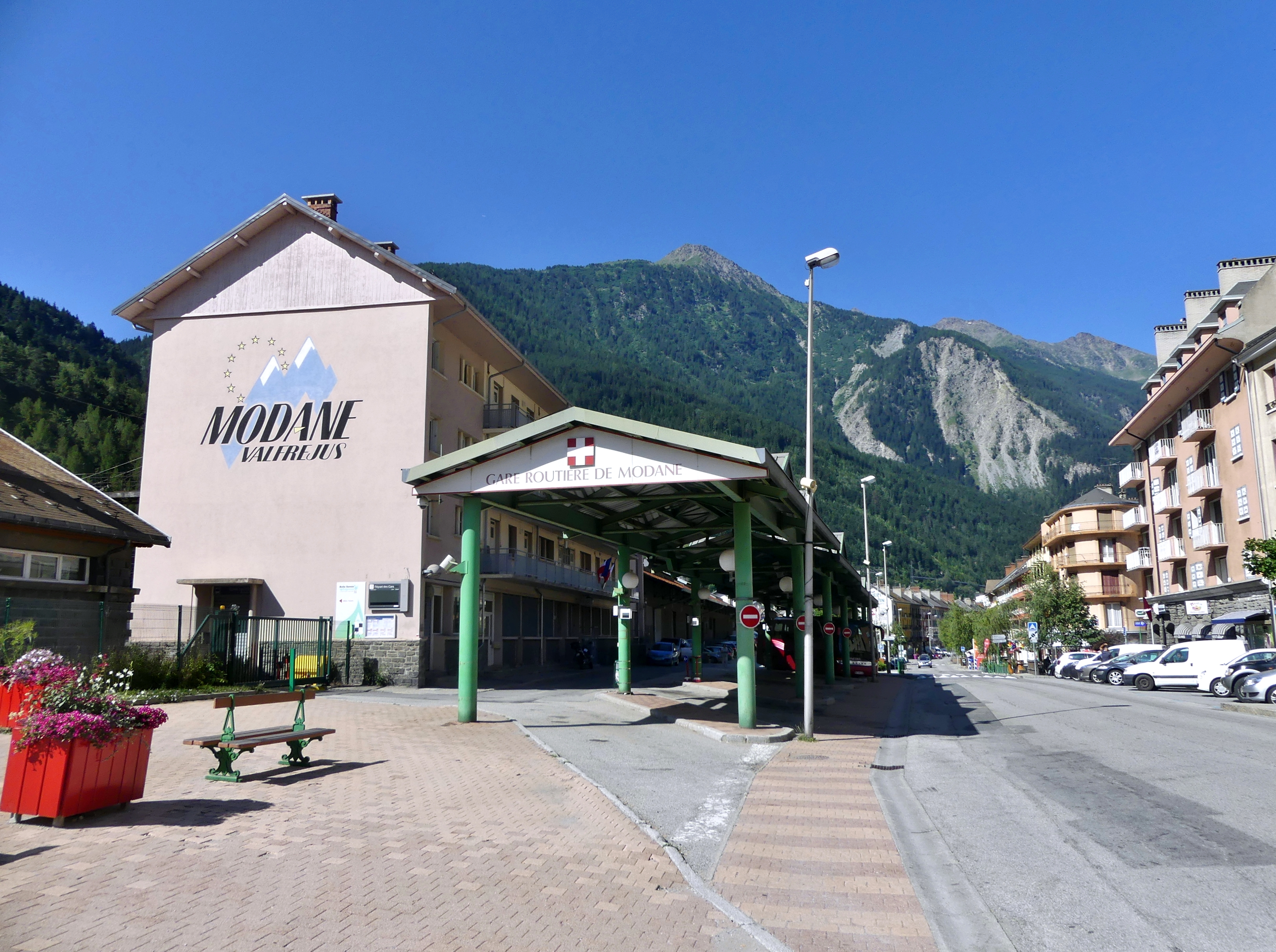 Sight of Modane-Gare with visible the coach station, neighborhood of Modane near the international railway station, in the Maurienne valley of Savoie, France.